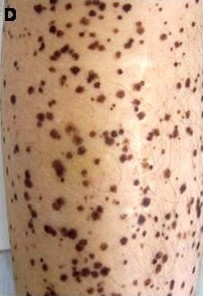 Multiple lentigines on the lower leg (37 year-old male patient with LEOPARD syndrome).